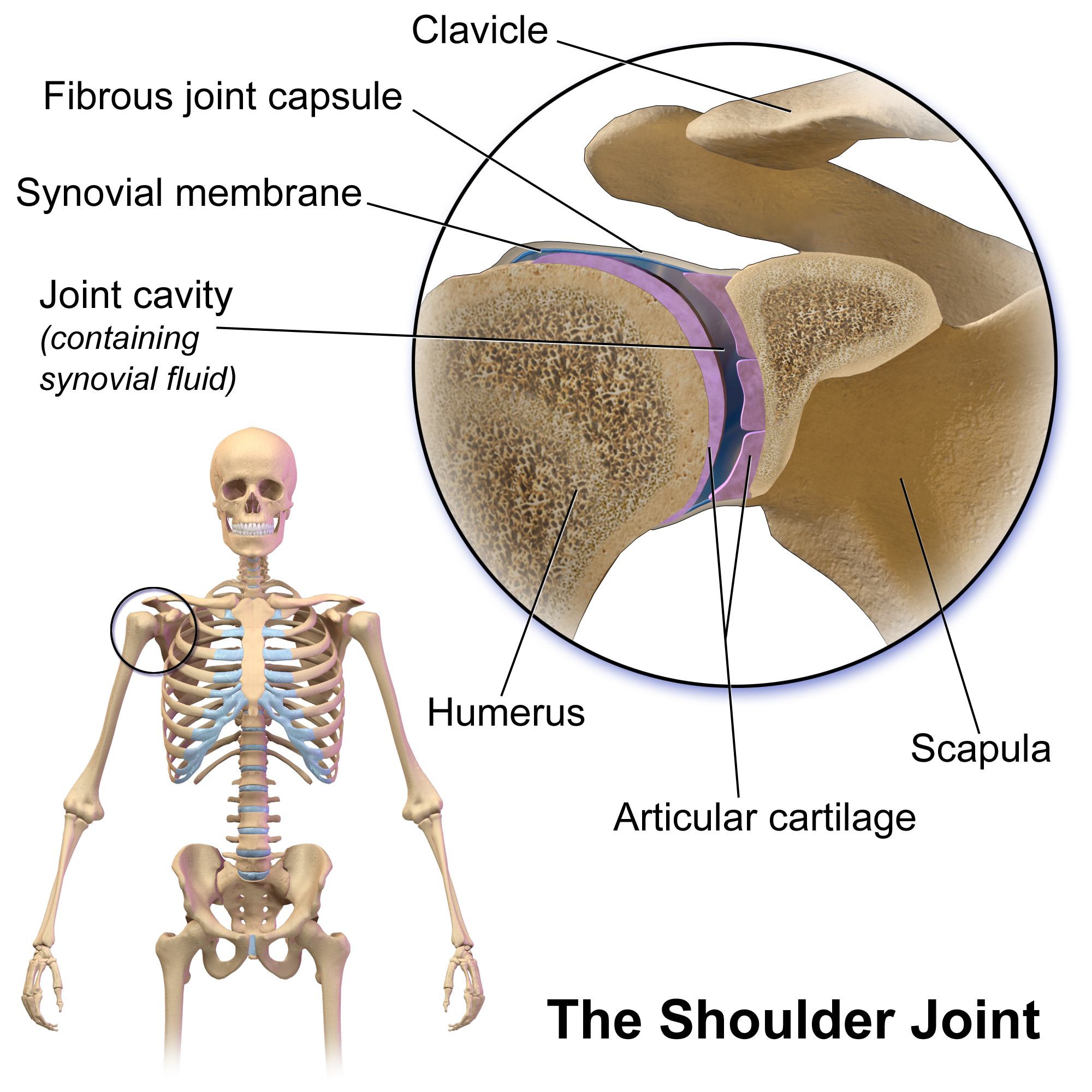 Shoulder Joint. See a full animation of this medical topic.